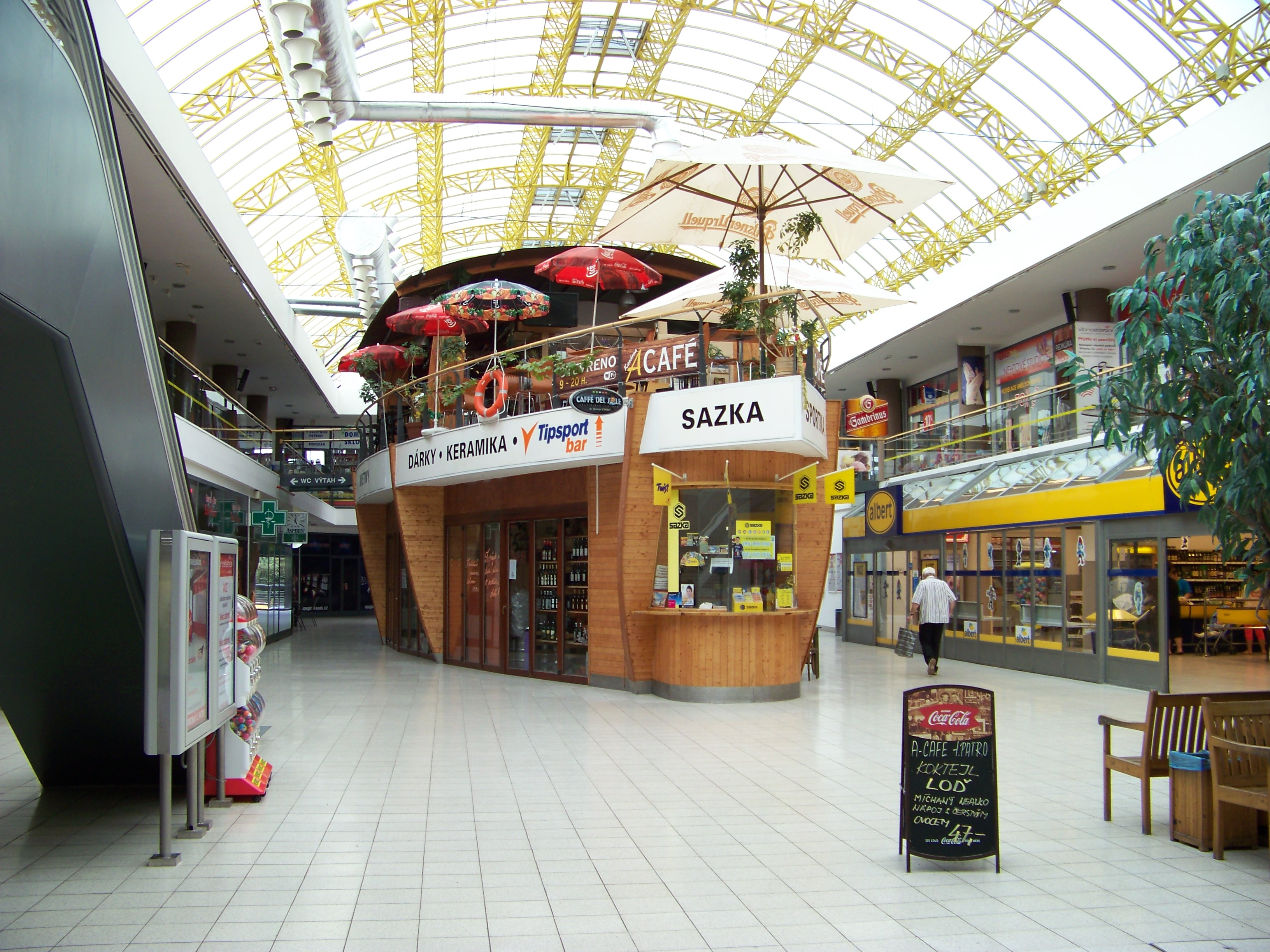 Prague-Záběhlice. Topolová 2915/16, Cíl shopping centre.